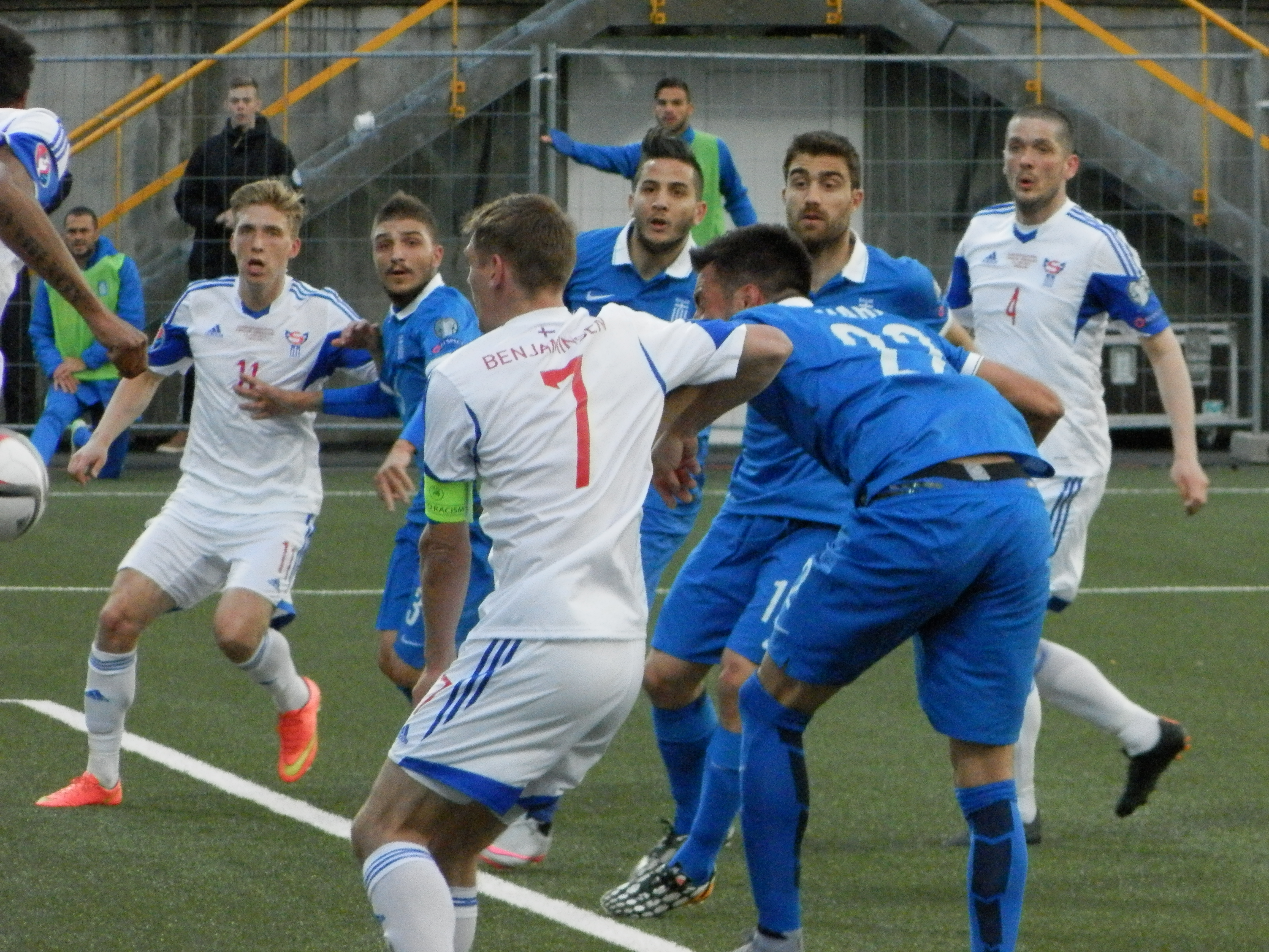 From the football match between the Faroe Islands vs Greece, played on Tórsvøllur Stadium in Tórshavn on 13 June 2015. Faroe Islands won the match 2-1.